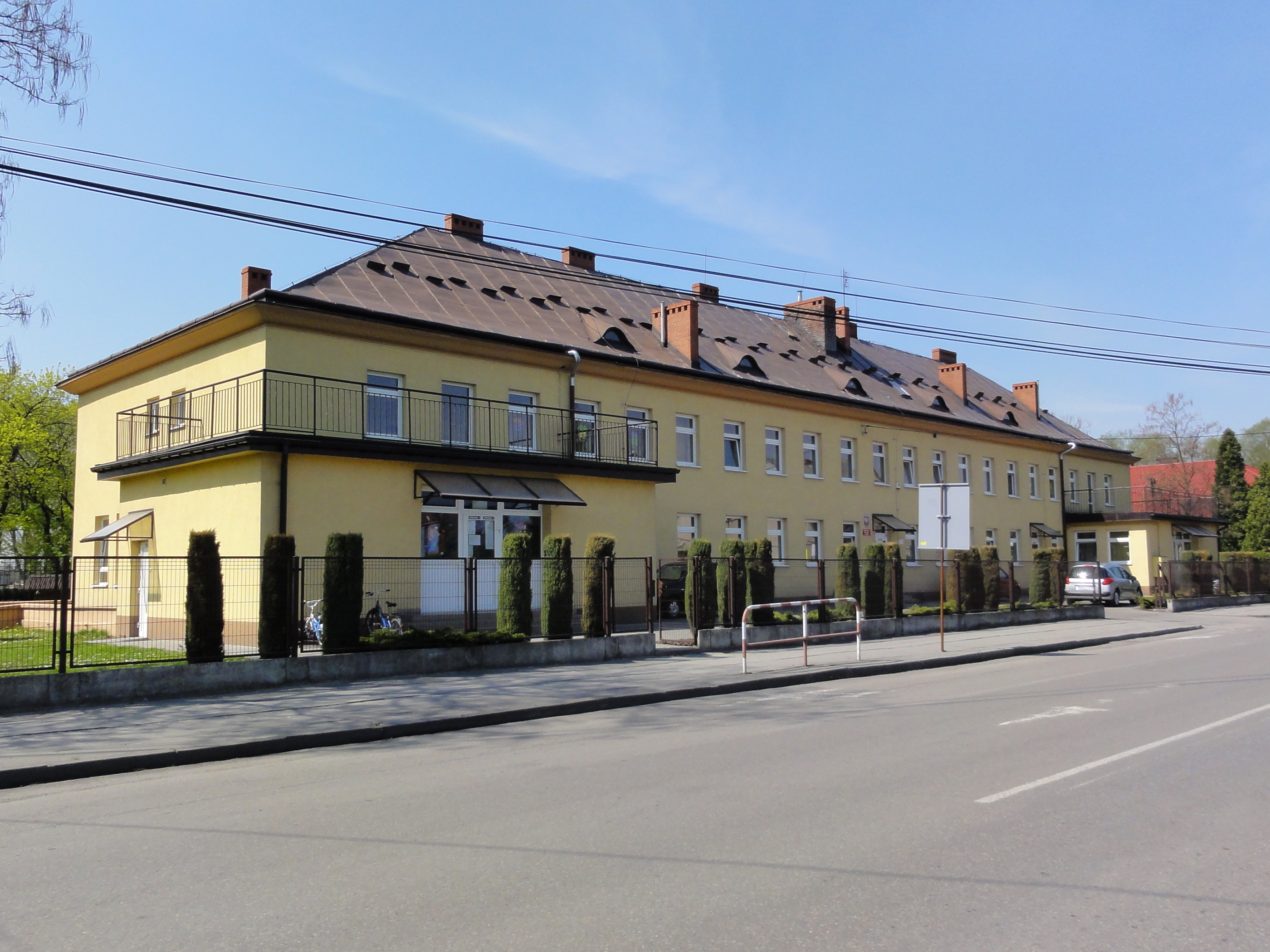 Kindergarten in Chybie